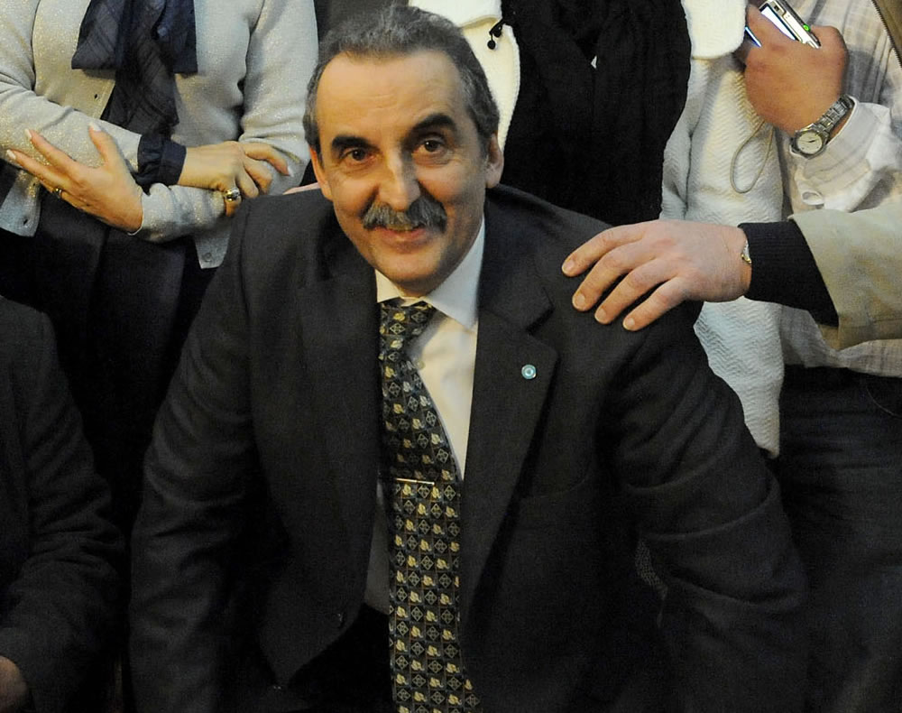 Guillermo Moreno, Trade Secretary of Argentina.